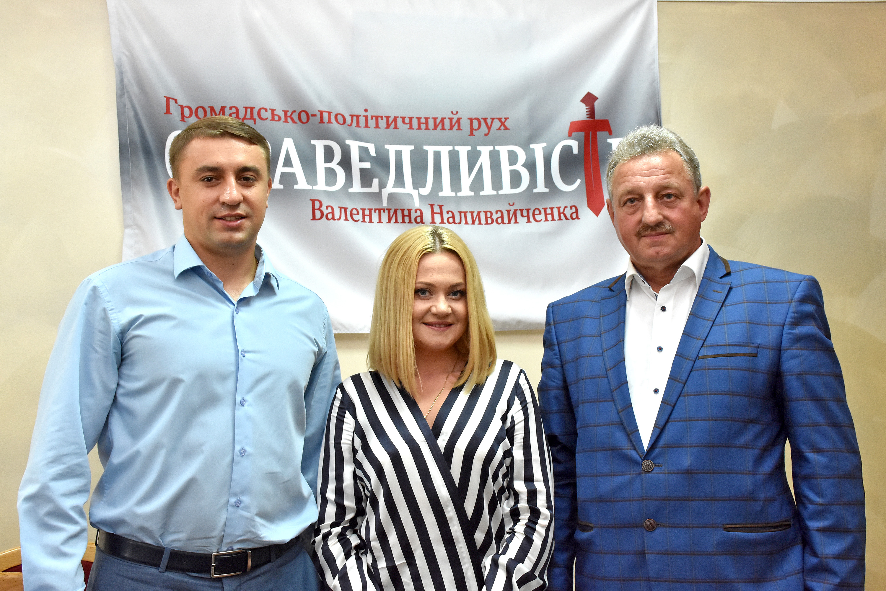 Founding Conference of Ternopil oblast regional party organization of socio-political movement of Valentyn Nalyvaichenko «Spravedlyvist».